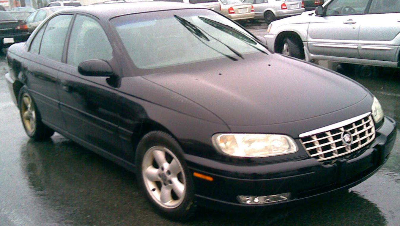 1997-1999 Cadillac Catera photographed in Montreal, Quebec, Canada.